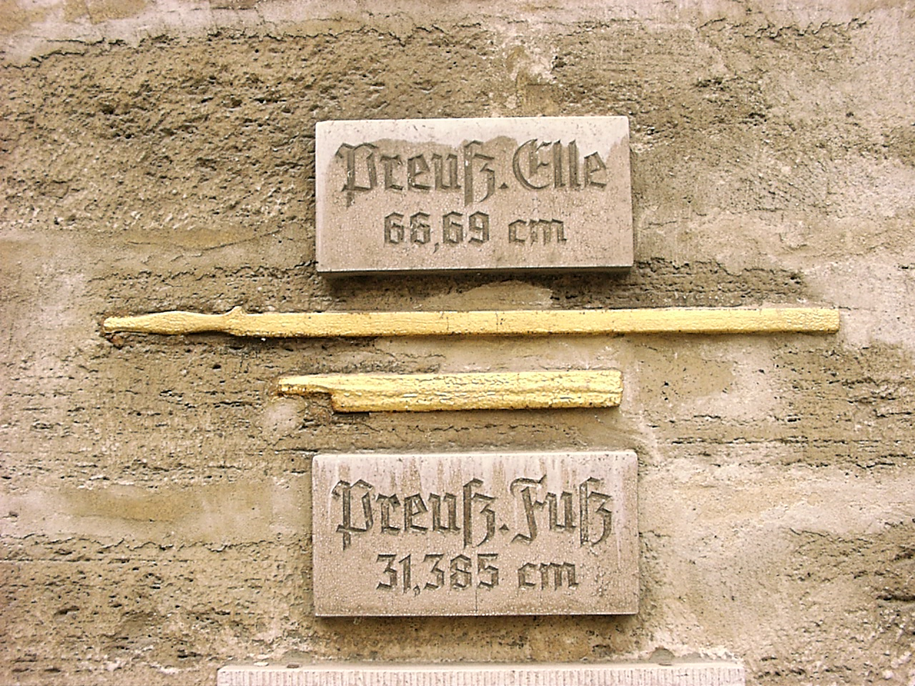 Prussian Ell and Prussian Feet at the town hall of Bad Langensalza, Thuringia, Germany